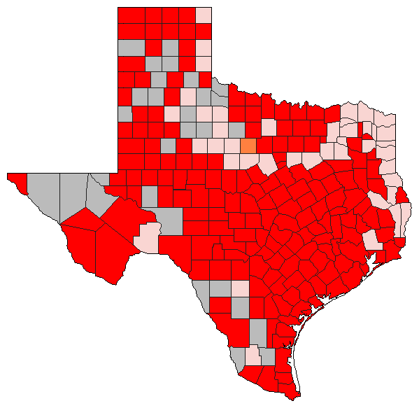 A map of the counties won by each candidate in the Texas Republican primary, 2008.